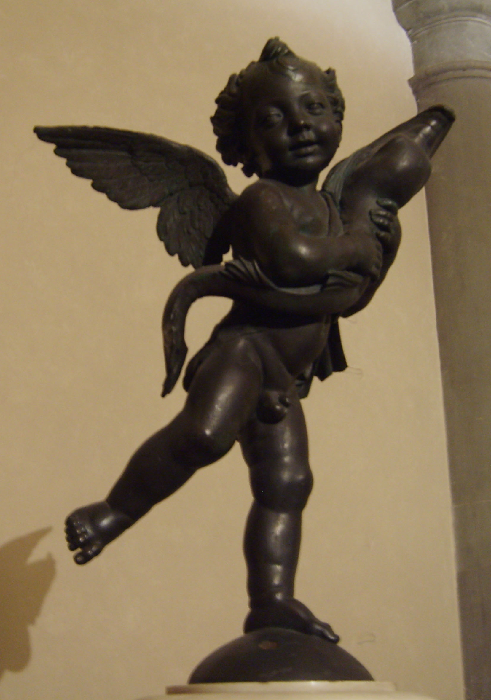 Andrea del Verrocchio - Amur